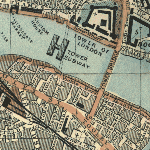 Location of the Tower Subway, London. Extracted from Reynolds' Shilling Map, en:1895.